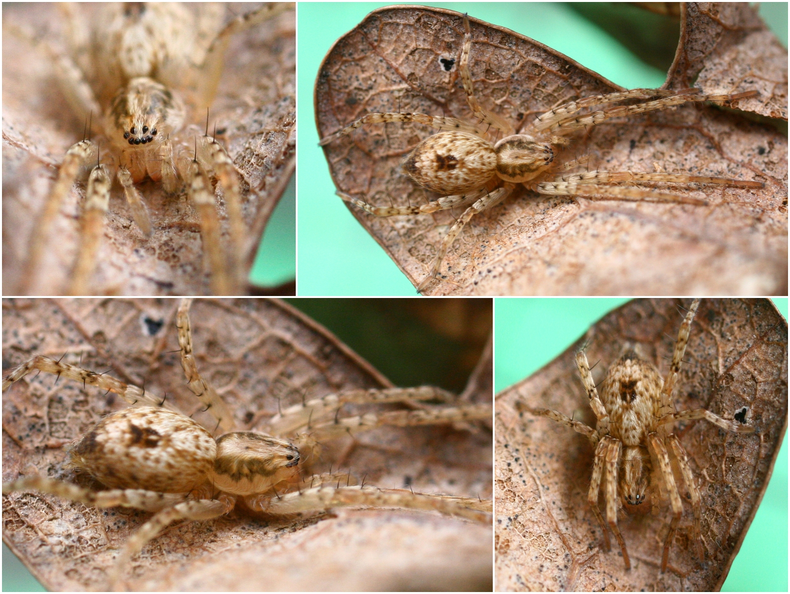 Anyphaena accentuata (Anyphaenidae). Beaten from hornbeam. Bricket Wood Common, Hertfordshire, England, 28th July 2010. More Info... Species Summary from Spider Recording Scheme Map from NBN Gateway Pavouci CZ Jorgen Lissner - female, subadult male Eurospiders